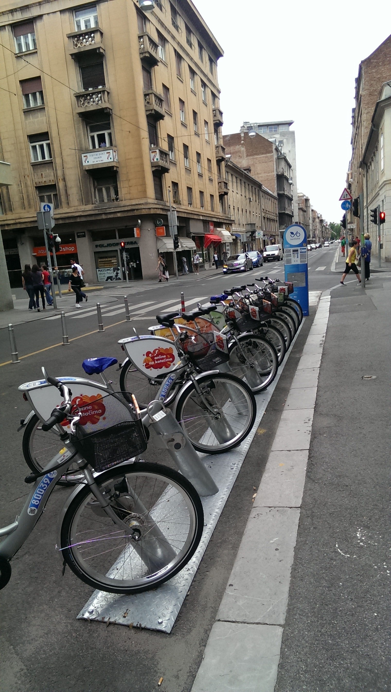 Bike sharing system in Zagreb.